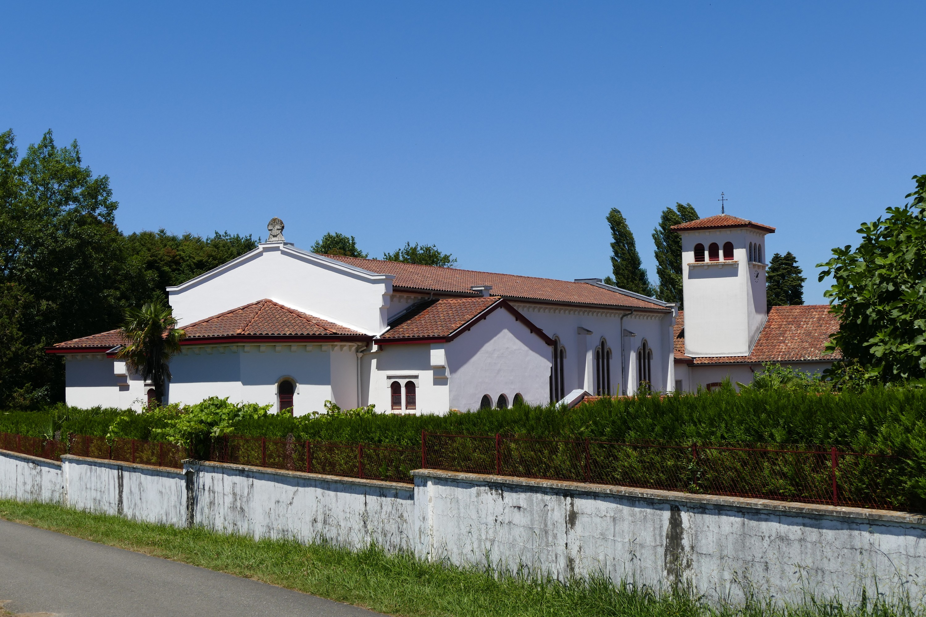 Saint-Scholastique's convent of the Benedictines in Urt (Pays Basque, Aquitaine, France).